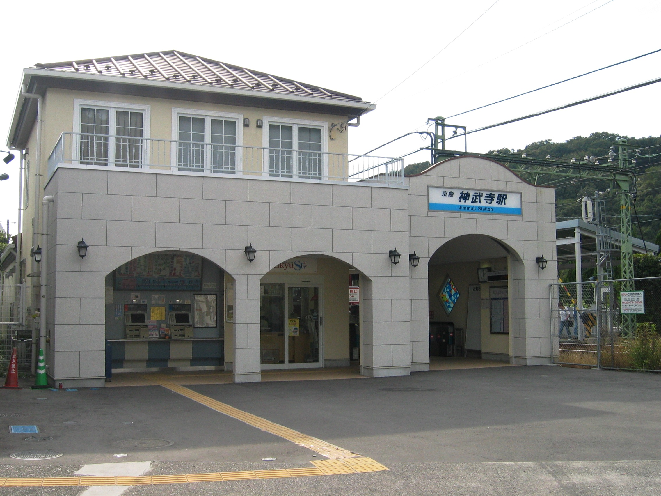 Jimmuji Station on the Keikyu Zushi Line in Kanagawa Prefecture, Japan